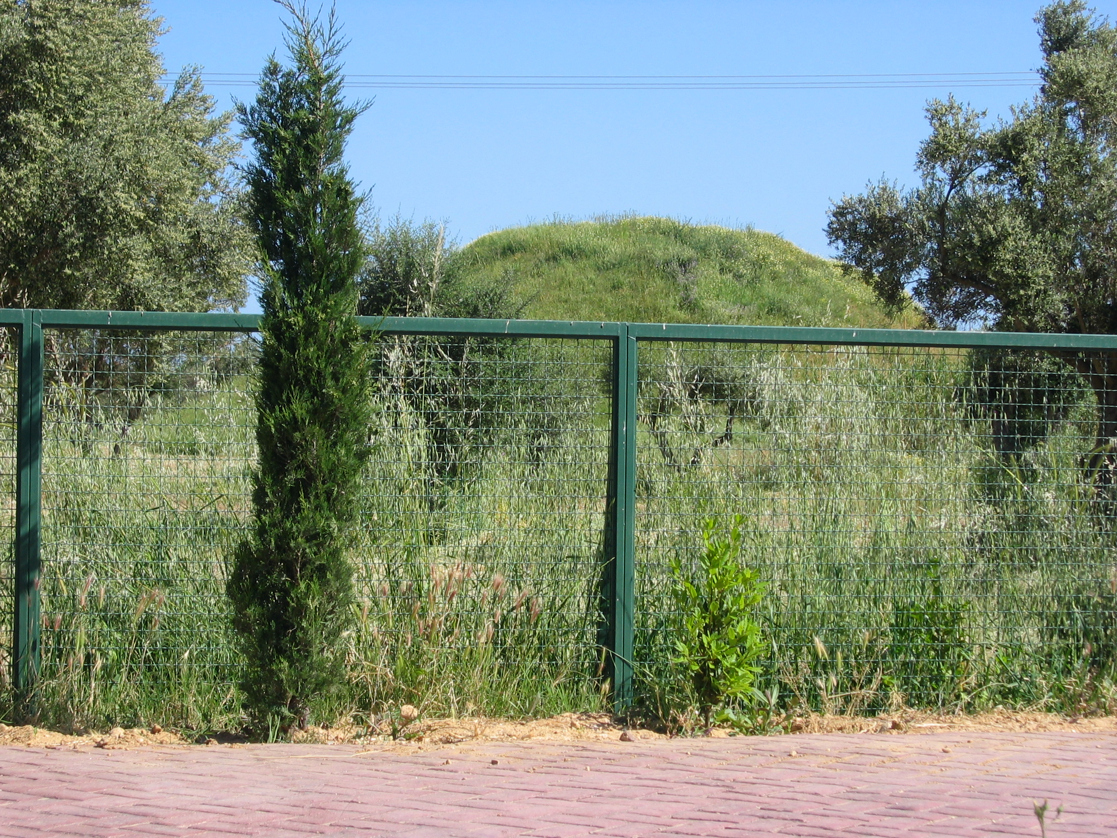 Photo Taken by Ryan Johnson in Spring of 2005 where the Athenians were buried after the Battle of Marathon.